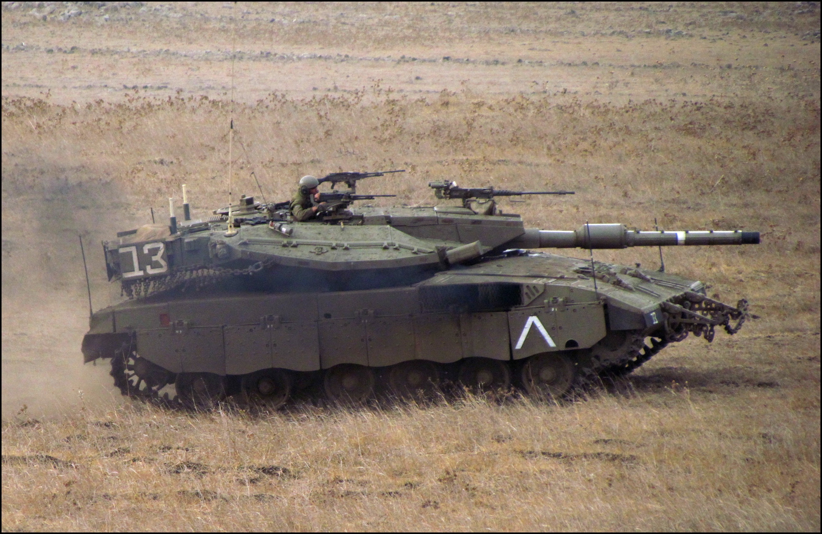 A Merkava Mk III from the 188th Armored Brigade during a display in the Golan Heights.